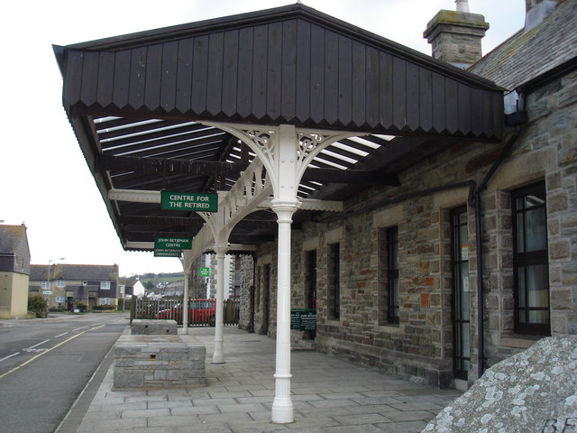 Former Station at Wadebridge